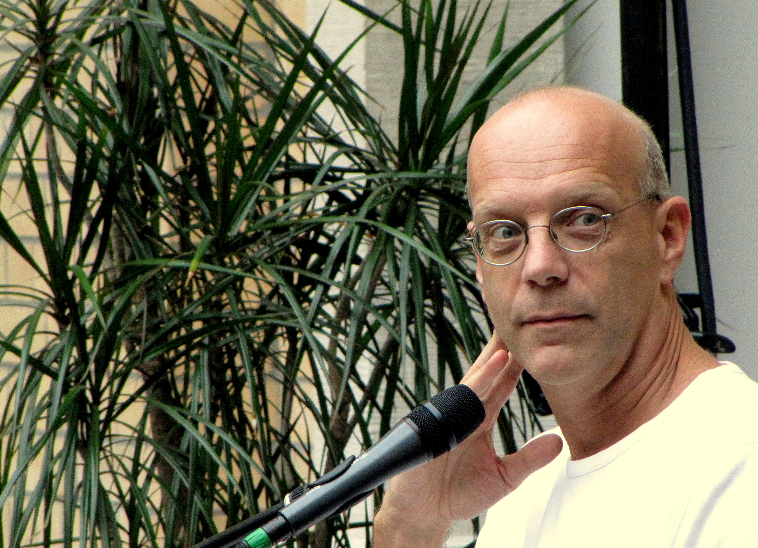 Critical Point of View (CPOV). Leipzig, September 2010. Bibliotheca Albertina.